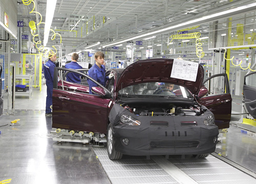 Prime Minister Vladimir Putin visiting a full-cycle Hyundai plant